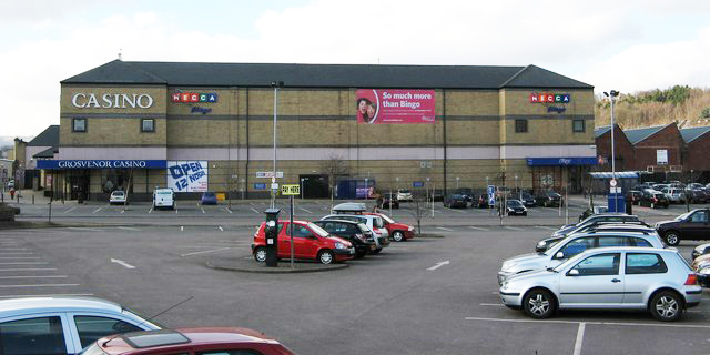 Mecca Bingo & Grosvenor Casino, St Thomas's Road, Huddersfield